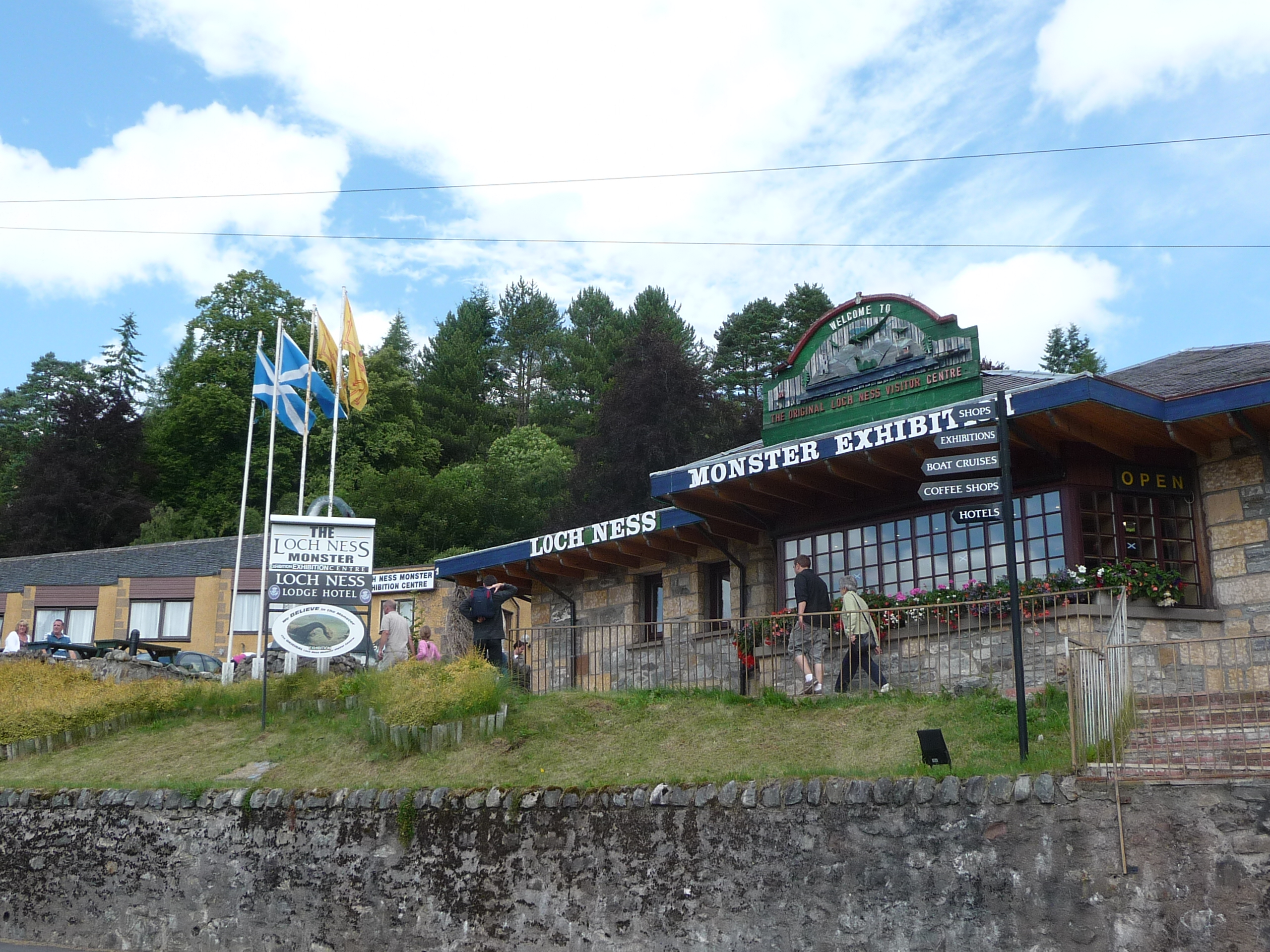 Loch Ness Monster